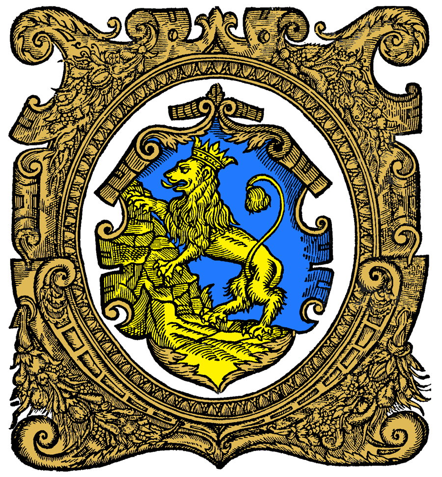 COA of Lviv Land (16th c).